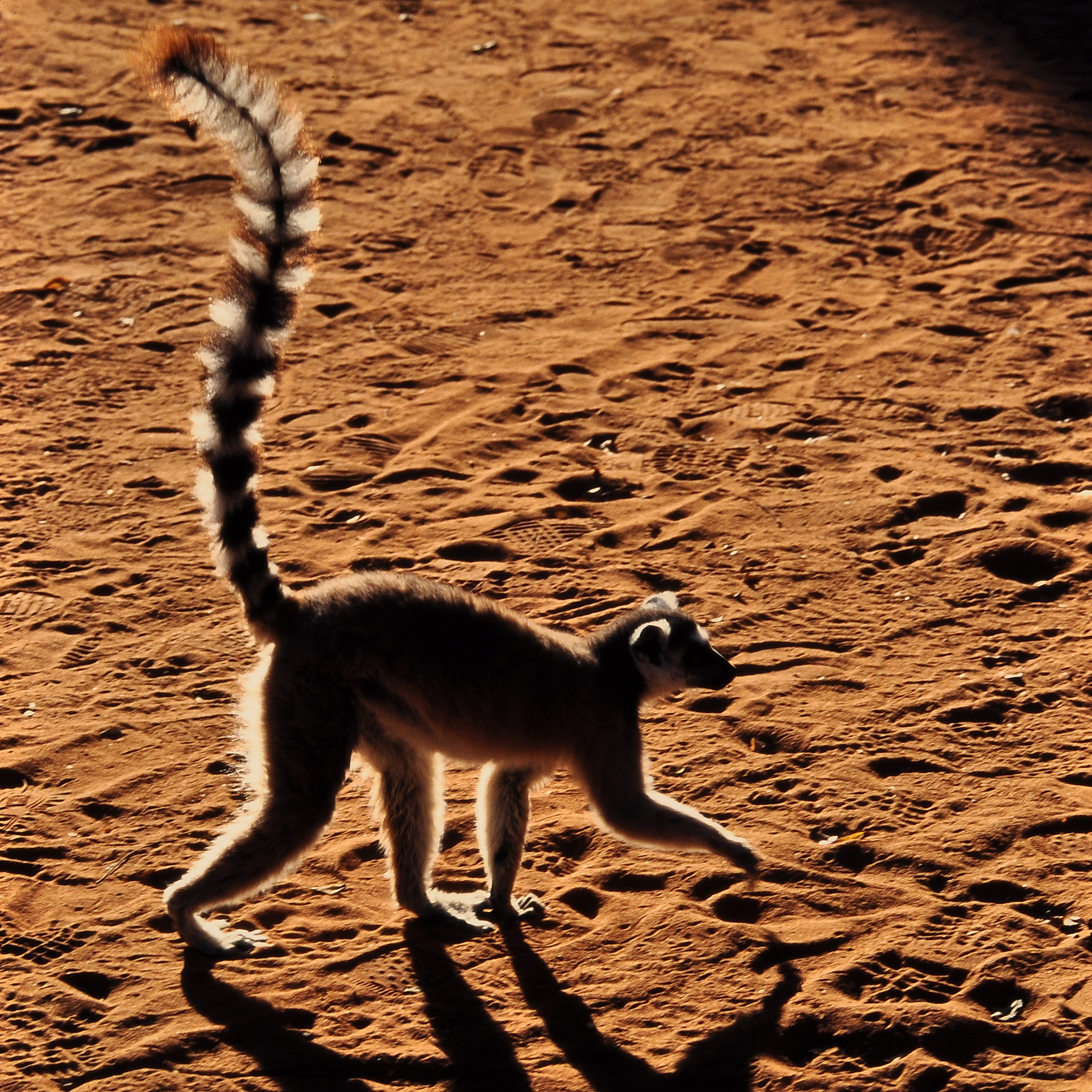 Ring-tailed Lemur in Berenty, Madagascar